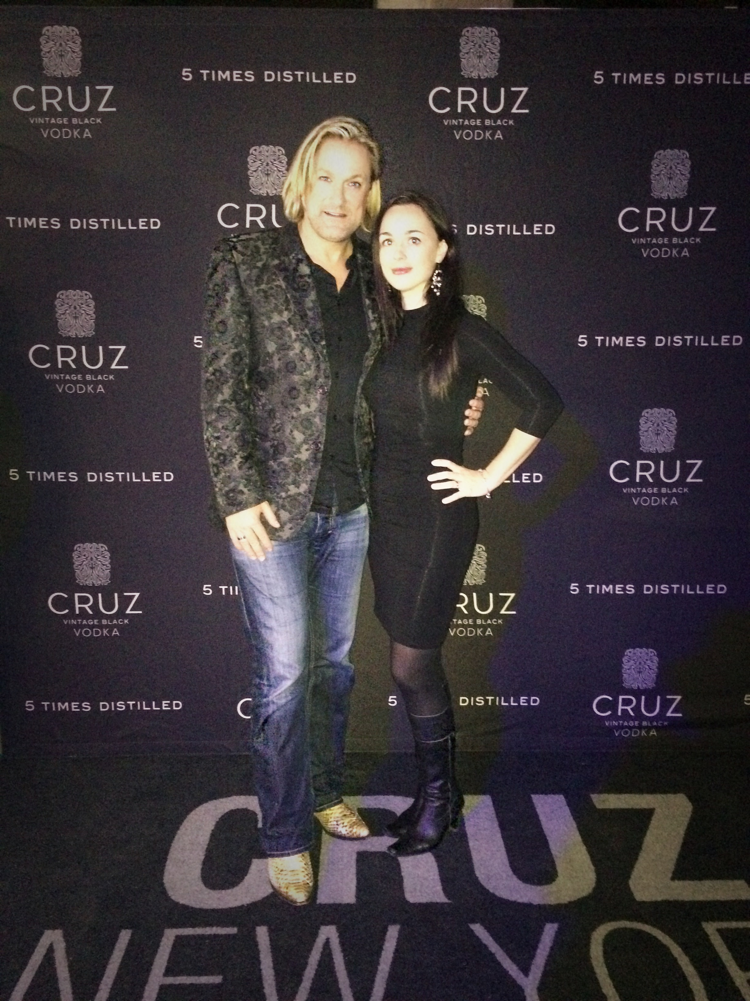 Ike Moriz and his wife are pictured here at a red carpet event of the Mercedes Benz Fashion Week held in Cape Town in July 2005 at the Greenpoint Stadium.